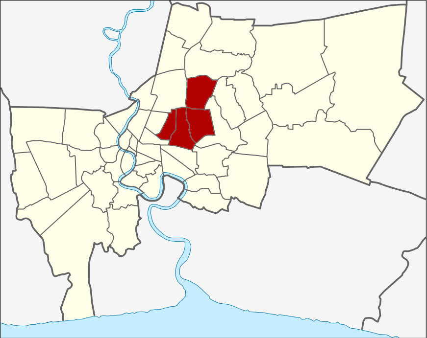 Bangkok 2007 Election Zone 3